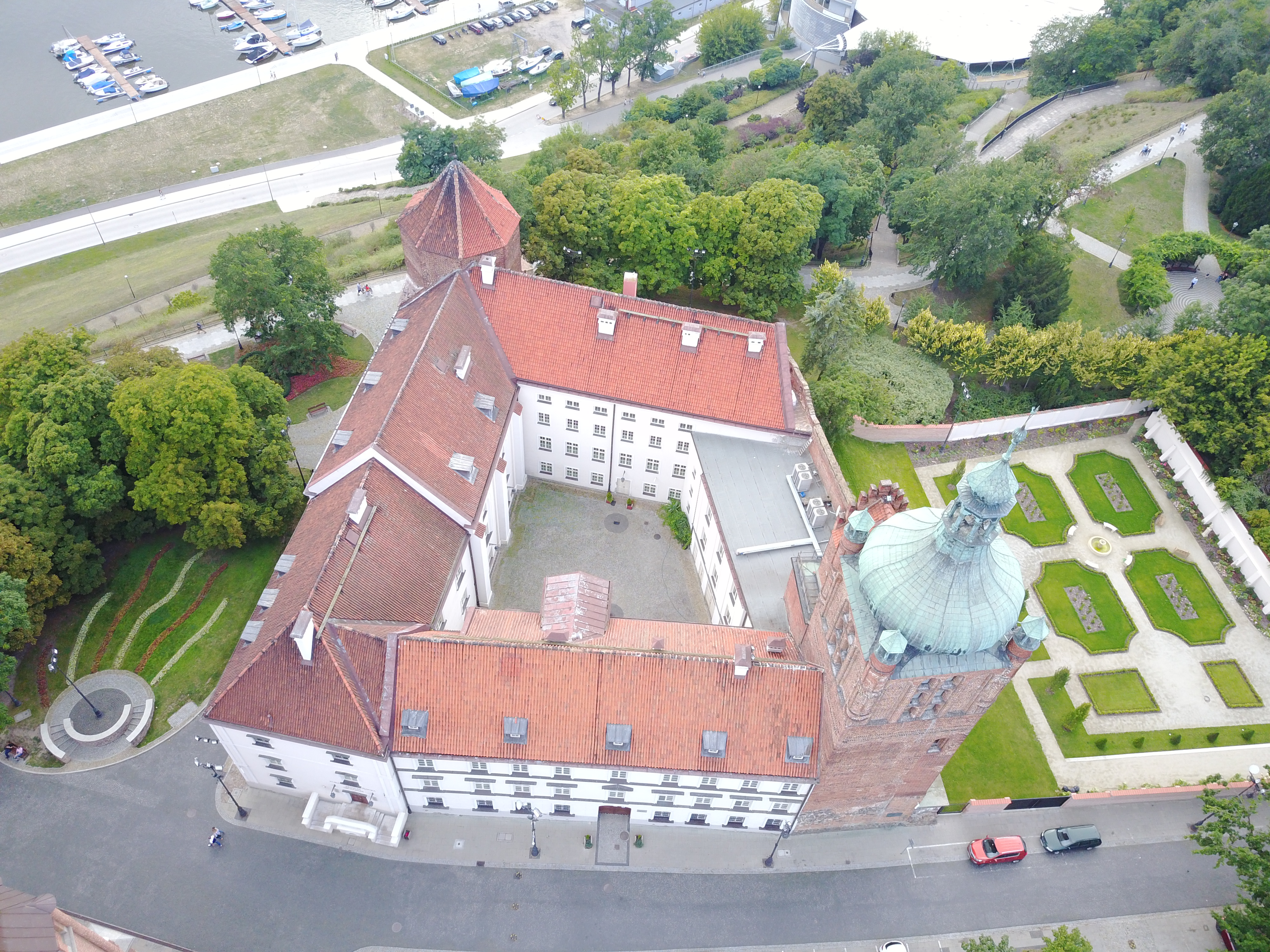 Former Benedictine monastery in Płock